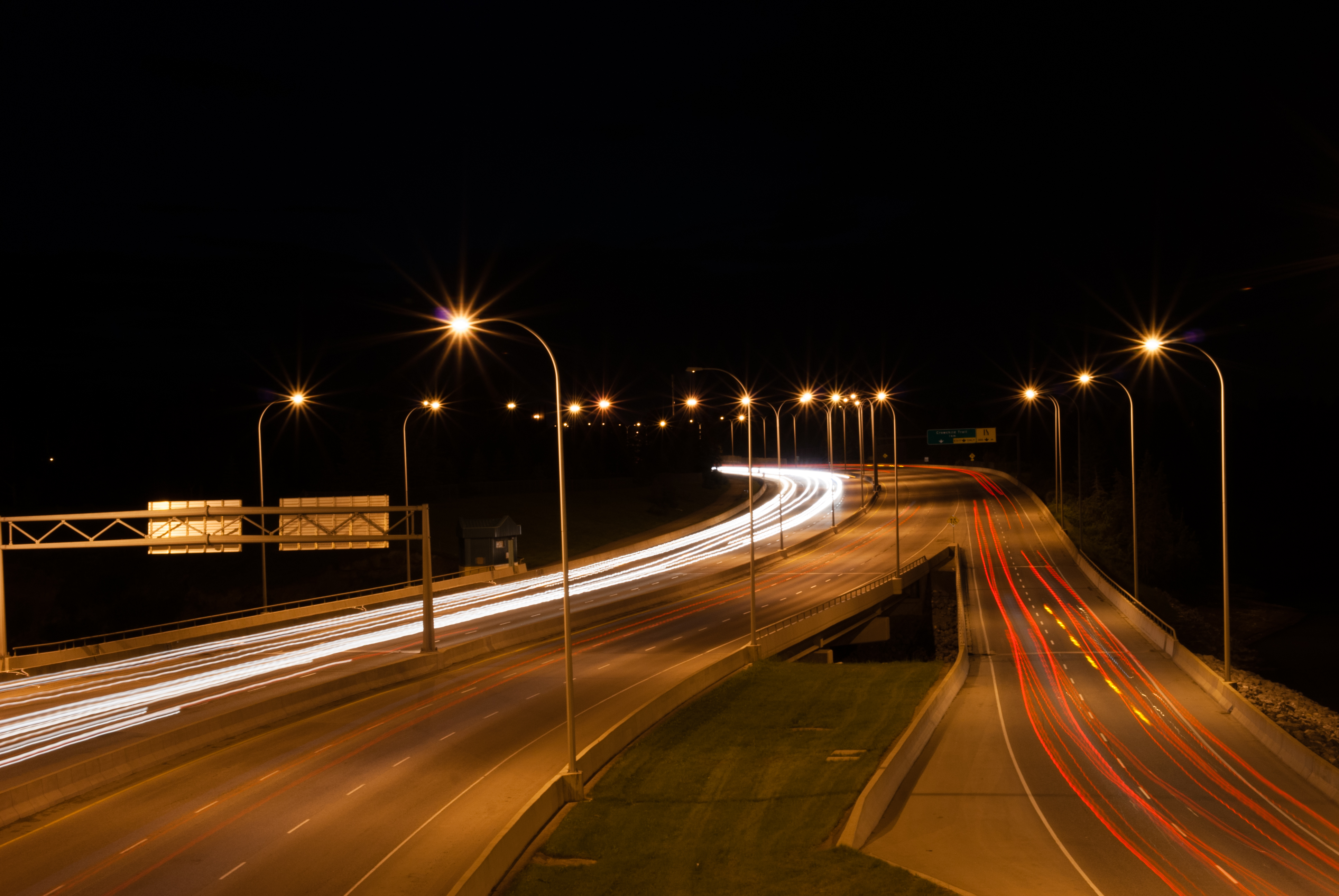 Nighttime Traffic